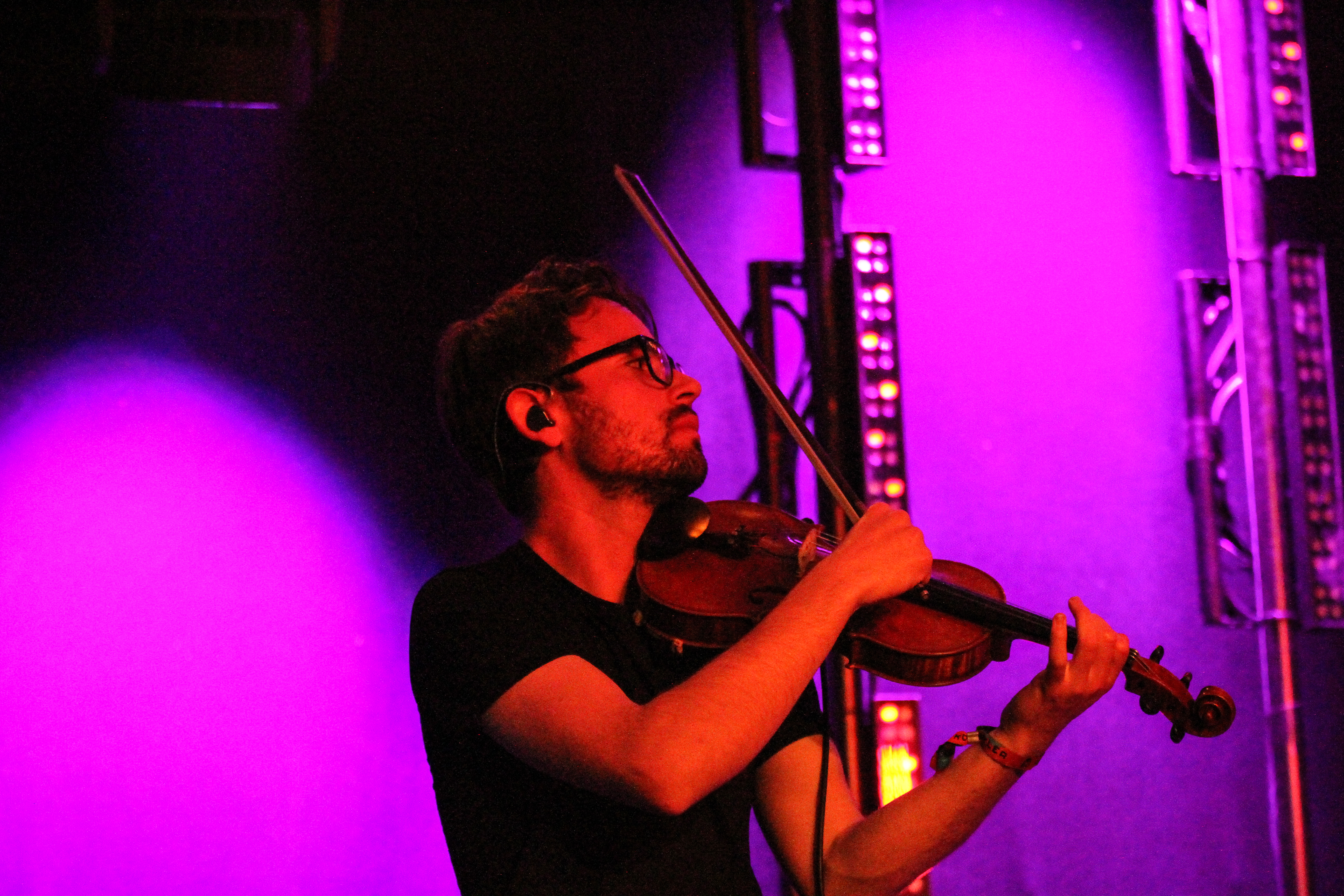 Festivalsommer This photo was created with the support of donations to Wikimedia Deutschland in the context of the CPB project "Festival Summer".